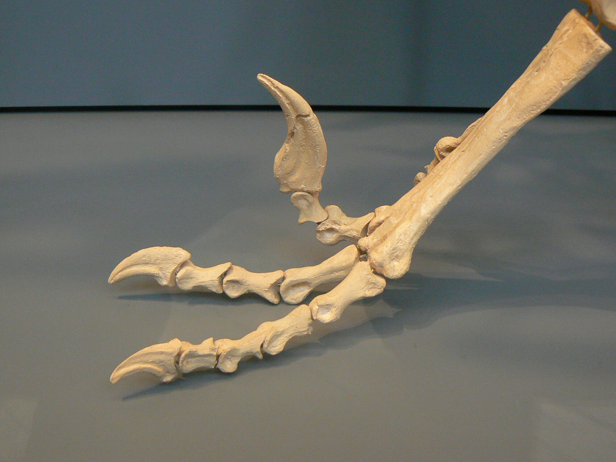 Dromaeosaurus feet.